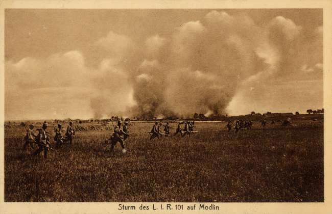 Old Post card depicting the charge of German infantry against the Russian Fortress of Novogeorgievk in August 1915.